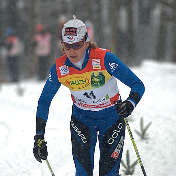 Emilie Vina at the Tour de Ski 2010 in Oberhof